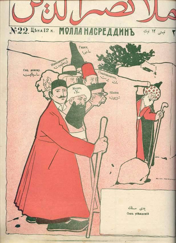 Seven Ideologies